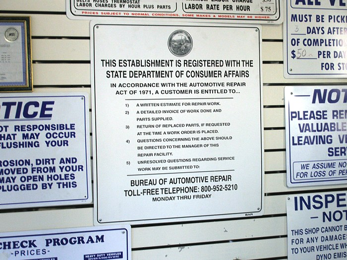 A notice that is posted in all California automotive repair shops. It reminds consumers of their rights and gives them the phone number of the Bureau of Automotive Repair of the California Department of Consumer Affairs. The posting of such notices is often mandated by consumer protection statutes. Photographed in Mountain View.